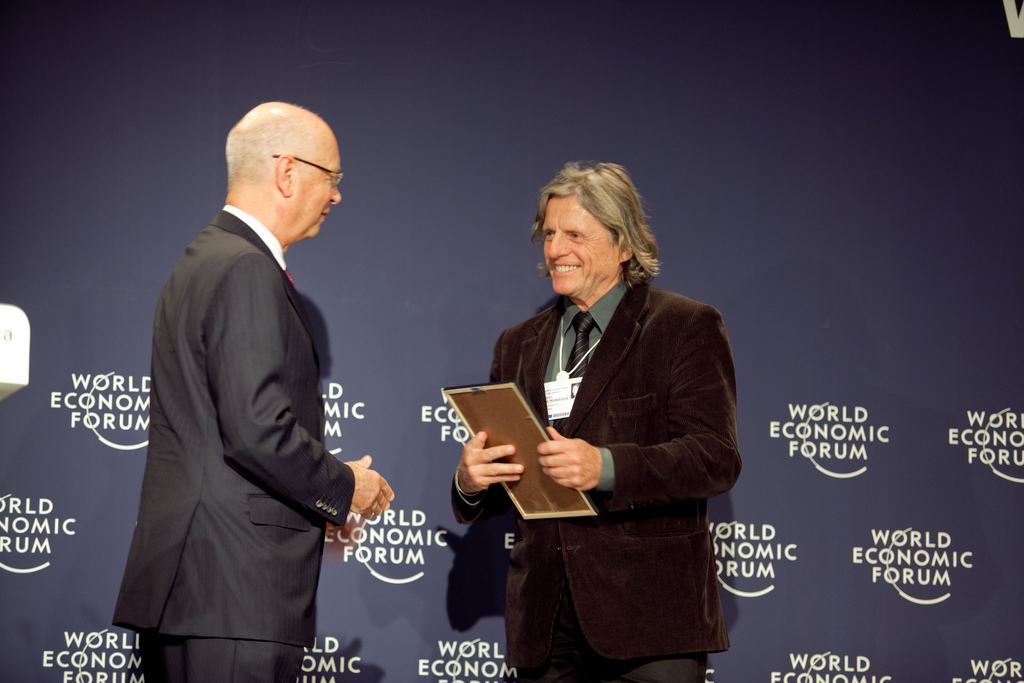 Martín von Hildebrand, ethnologist, met Klaus Schwab, Executive Chairman of the World Economic Forum, at the World Economic Forum on Latin America in Rio de Janeiro City, Rio de Janeiro State on April 15, 2009.